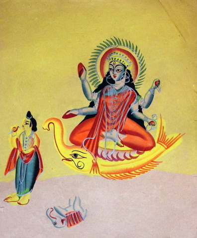 Ganga, Kalighat painting